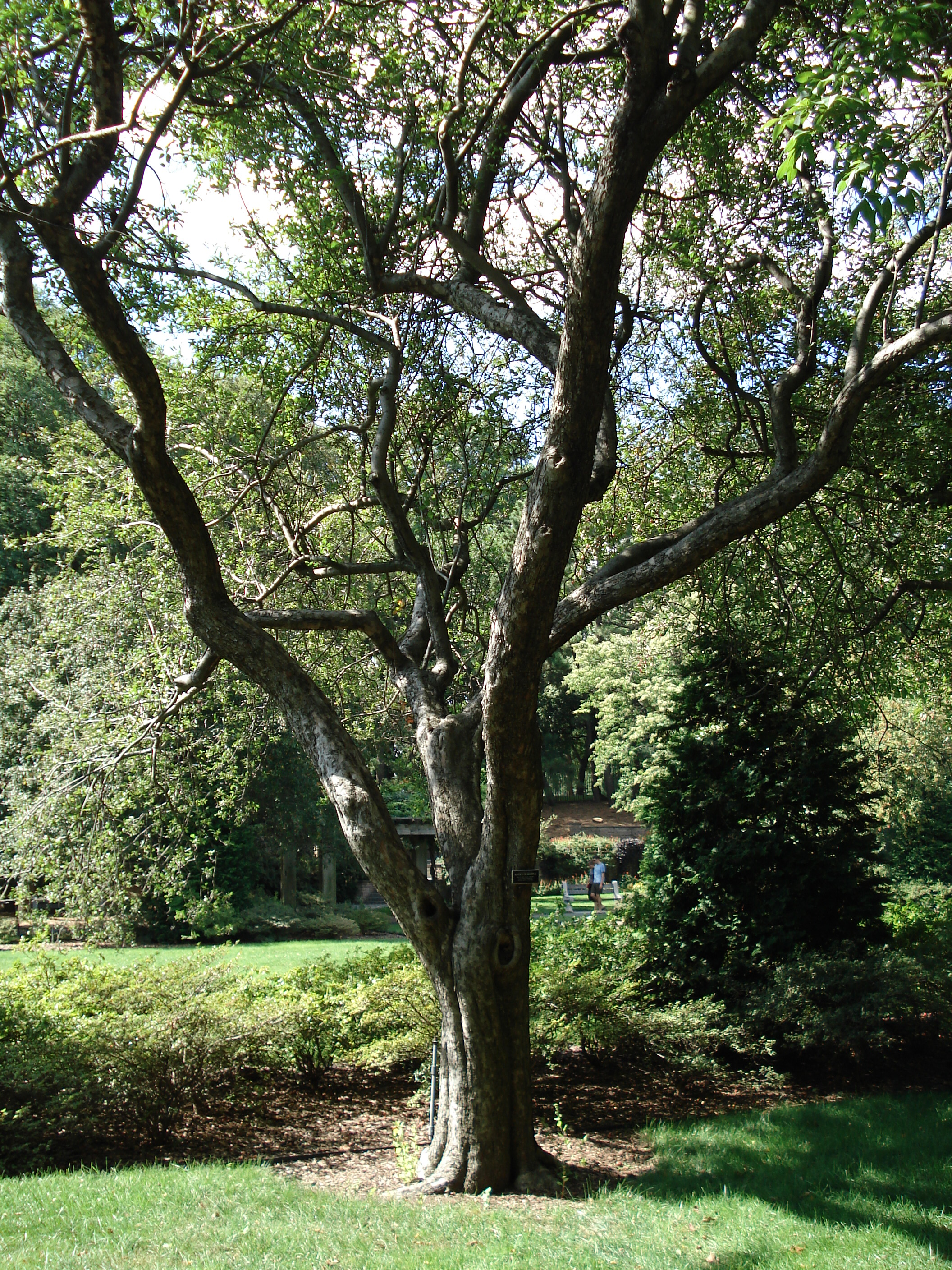 Malus_spectabilis (riversii) tree at the Brooklyn Botanic Garden in New York City. Copyright 2007 Jeffrey O. Gustafson, released to Commons under the GFDL and the CC-BY-SA-3.0.